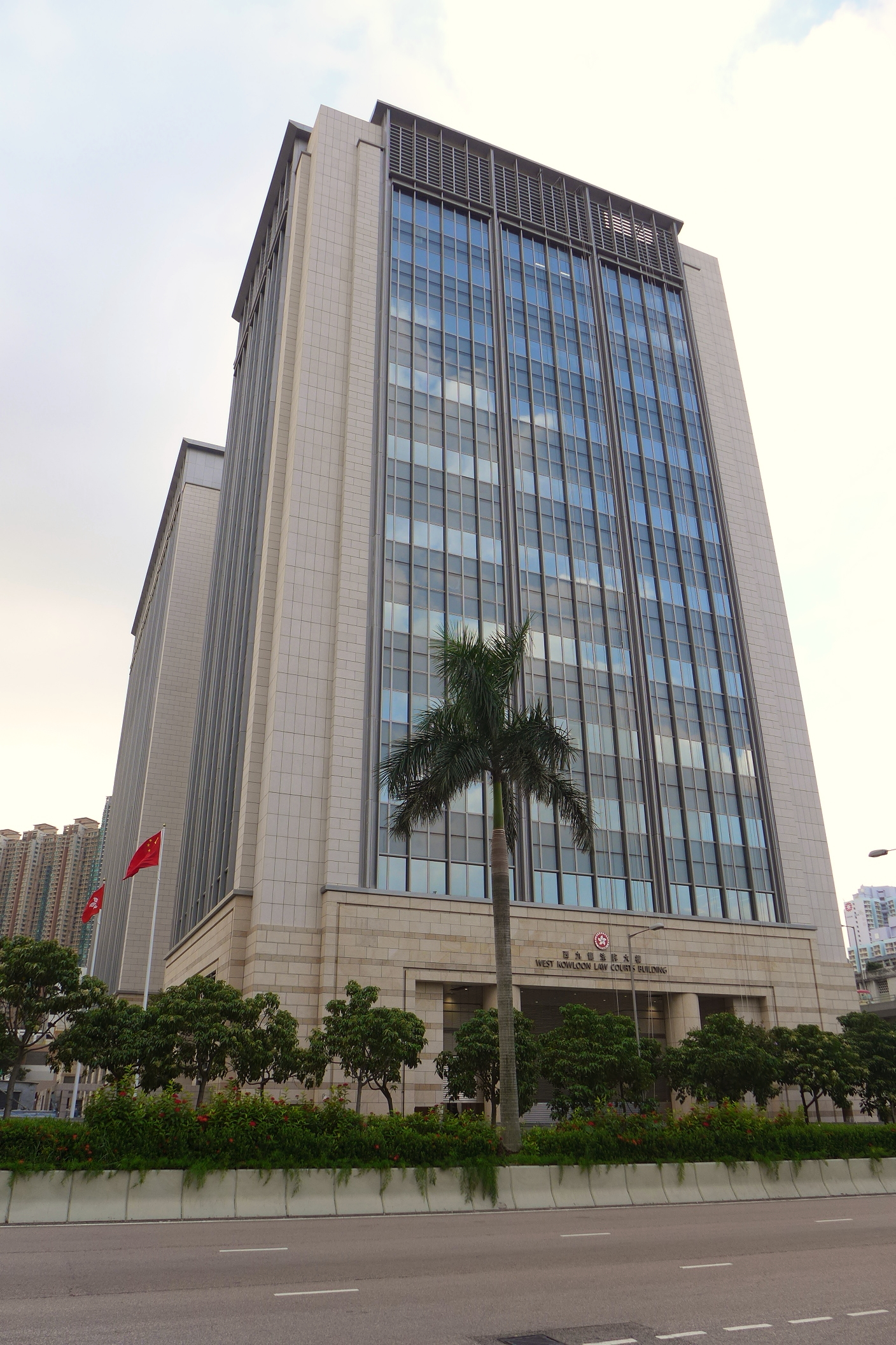 West Kowloon Law Courts Building